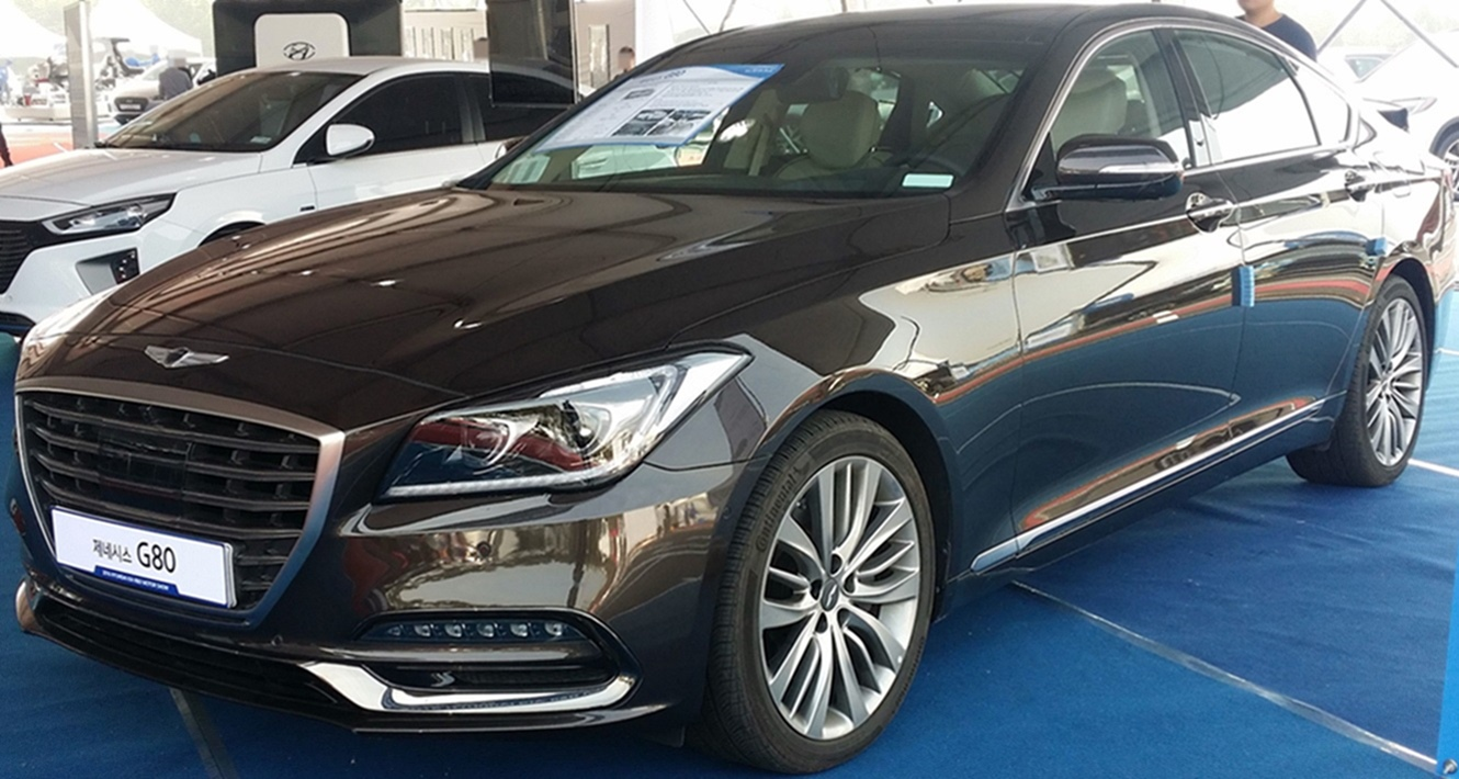 Genesis G80